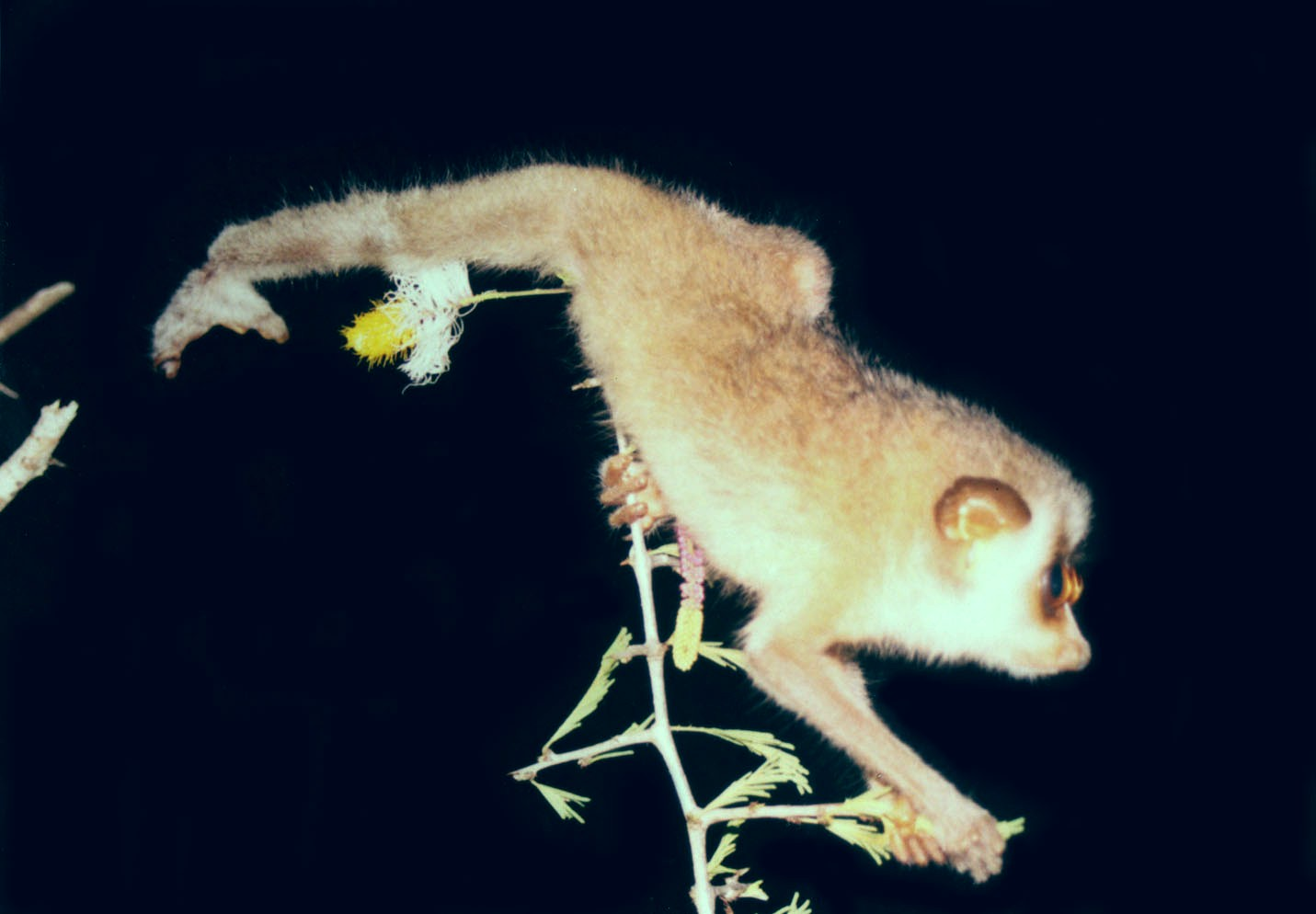 Gray slender loris (Loris lydekkerianus nordicus) from Northern Sri Lanka (Mannar, Trincomalee, Giratele)